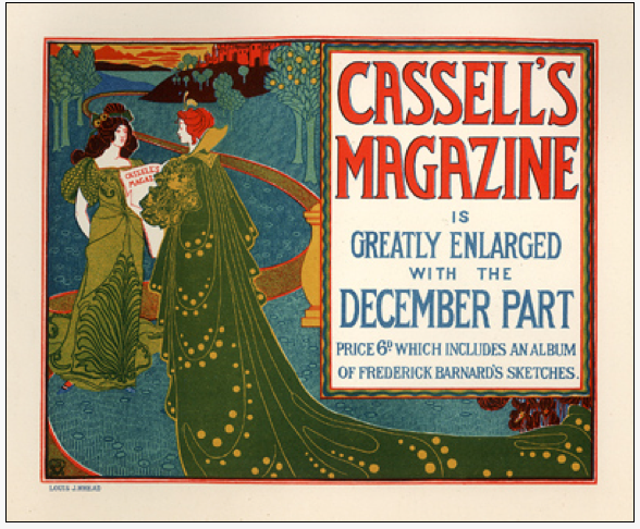 Poster for the Cassell's Magazine designed by Louis Rhead and printed in Dresden (Germany) in 1897 on a lithographic process.